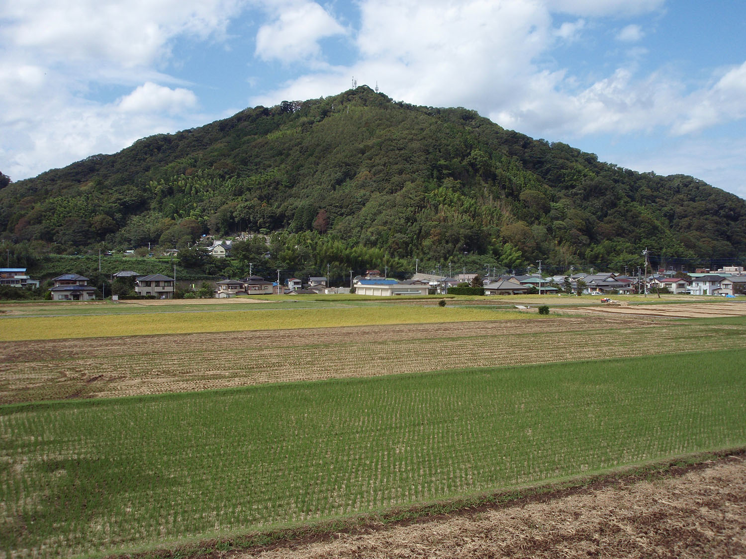 Mount Shiro(Shiroyama) as seen from the southeast in Izu, Shizuoka Prefecture, Japan.